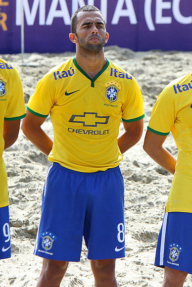 Photo of Bruno Xavier, Brazilian beach soccer player.